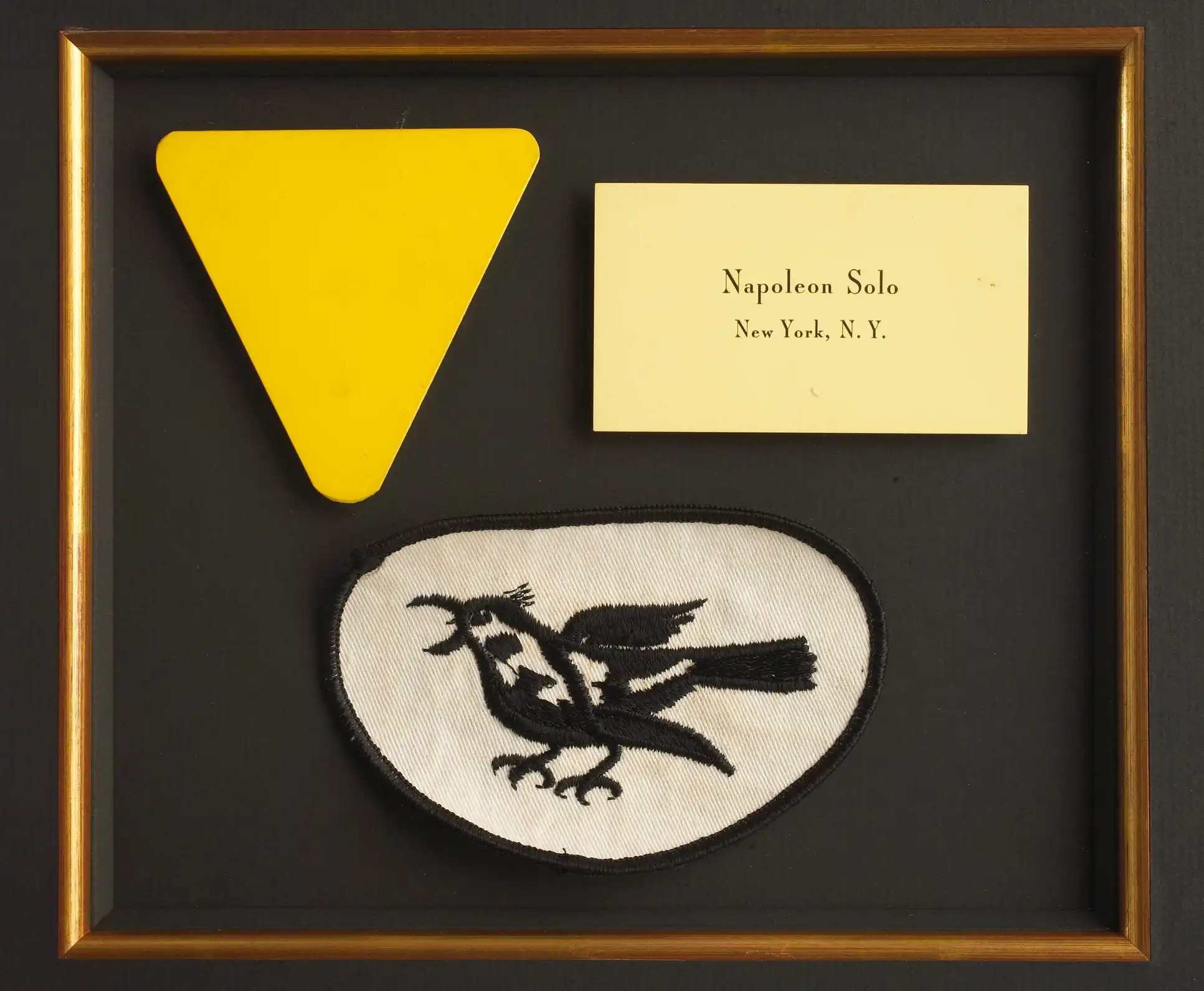 «The Man from U.N.C.L.E.» memorabilia. «The Man from U.N.C.L.E.» was a television show on NBC in the mid-1960s. The fictitious international law-enforcement agency, U.N.C.L.E., worked to protect the world from sinister forces like Thrush, another fabricated organization bent on world supremacy. These artifacts were donated to the CIA Museum in 2000 by «The Spy-Fi Archives». The triangular security badge permits entrance into U.N.C.L.E.’s secret headquarters. The business card is from U.N.C.L.E.’s top enforcement agent, Napoleon Solo. The patch bears the insignia of the evil Thrush organization.